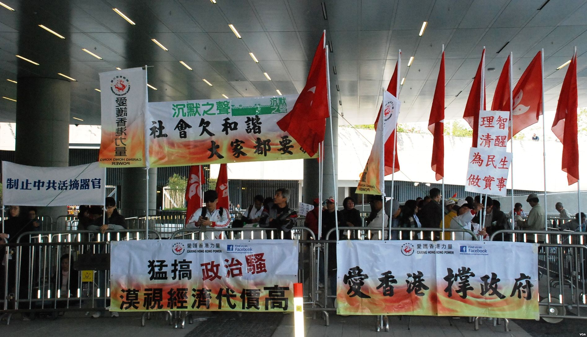 2013 Policy Address